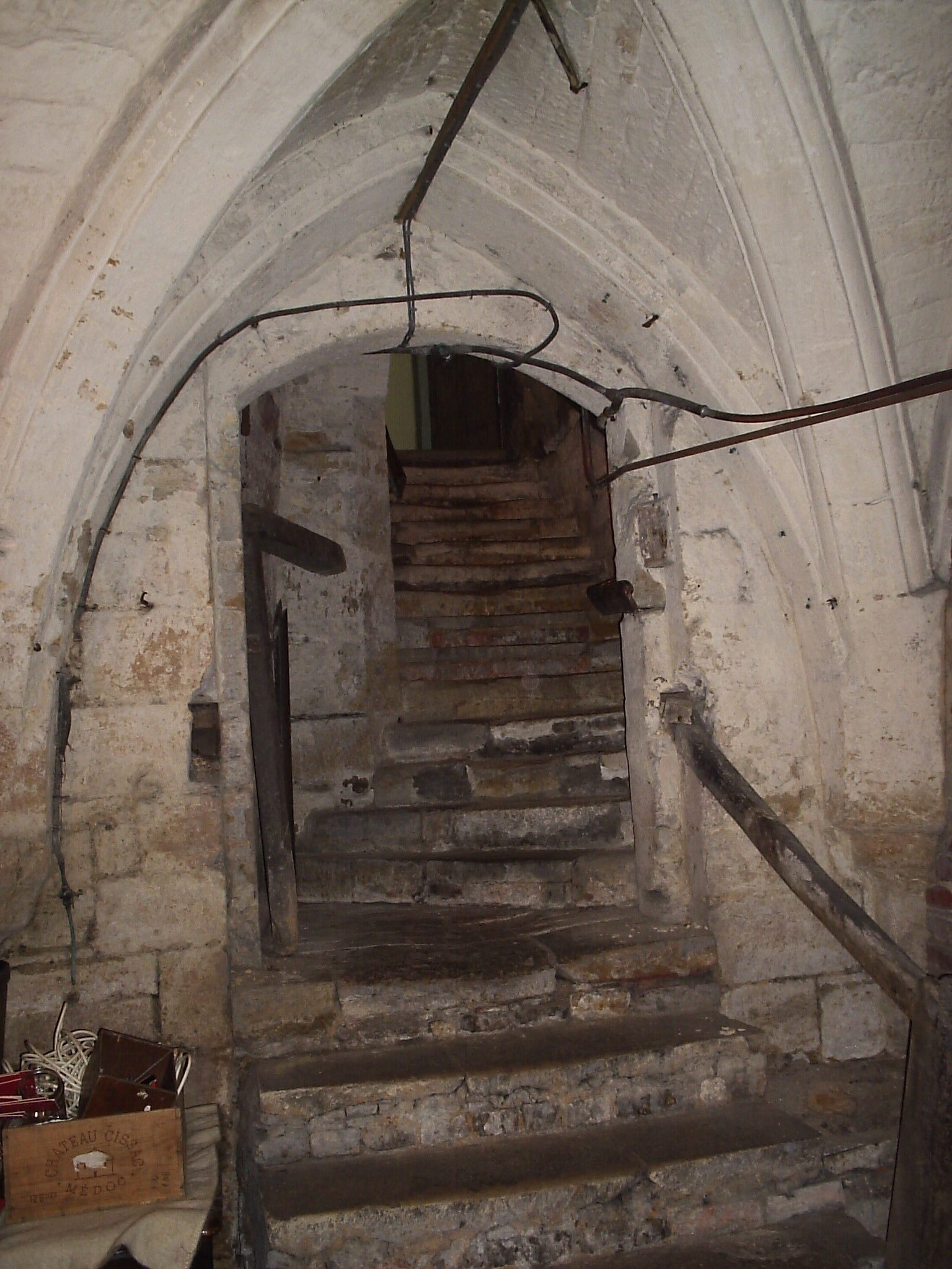 Medieval cellars at the Northampton & County Club in Northampton. Source Picture by RN Marshman 3 May 2006 - see metadata (c)